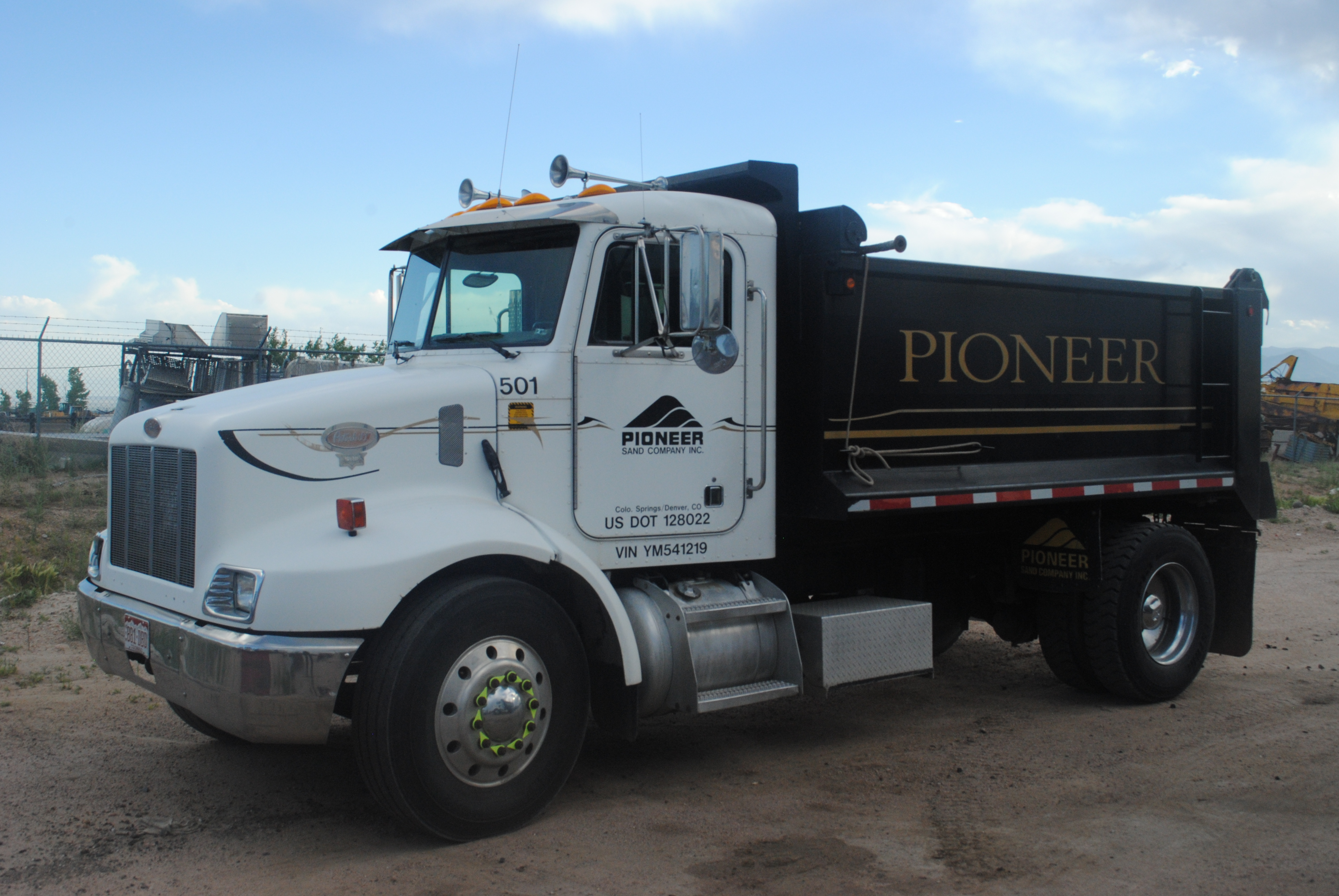 A Peterbilt 330 dump truck, this one equipped with a "dirt tub" dump body.